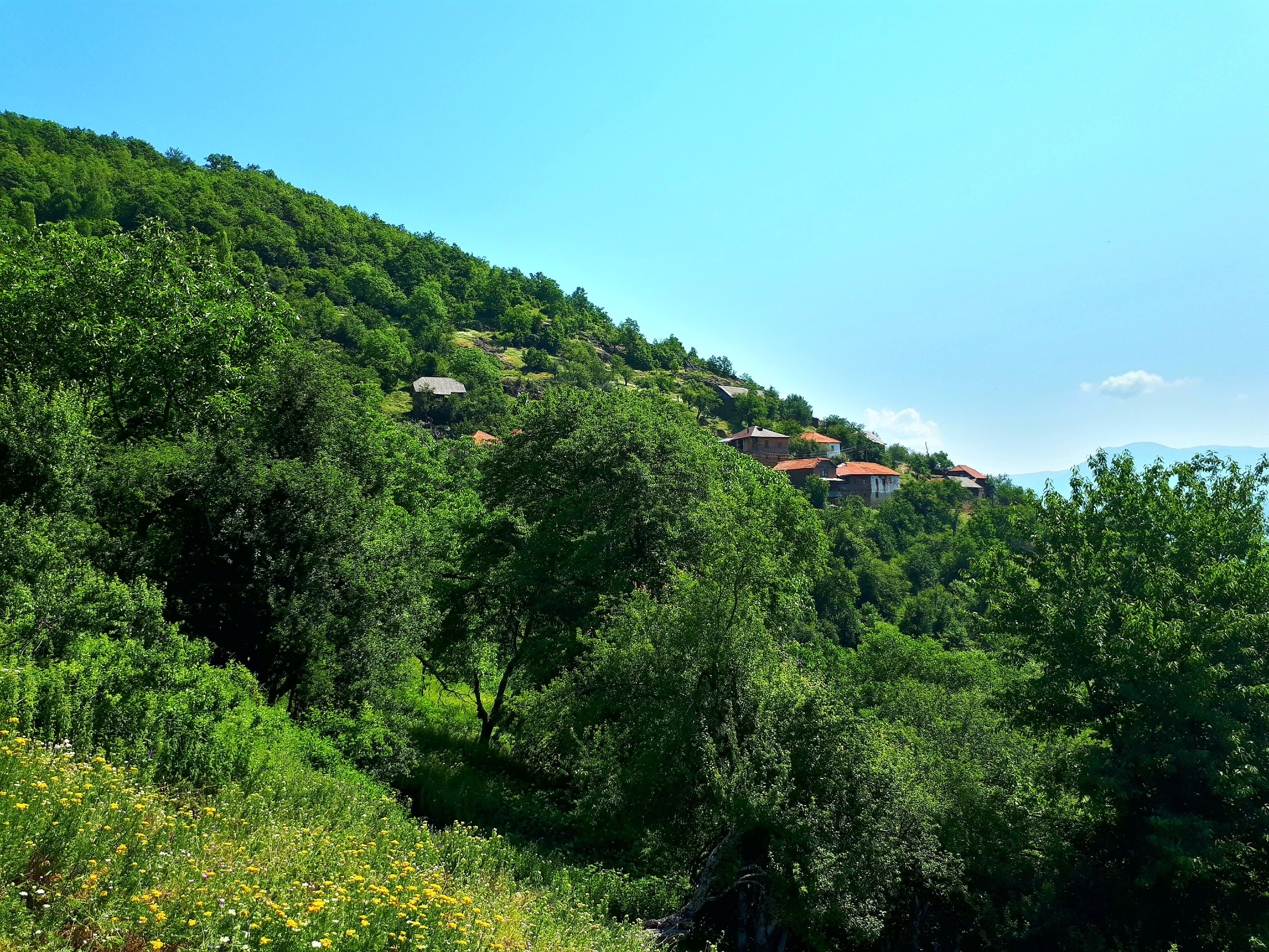 View of the village Dolno Krušje